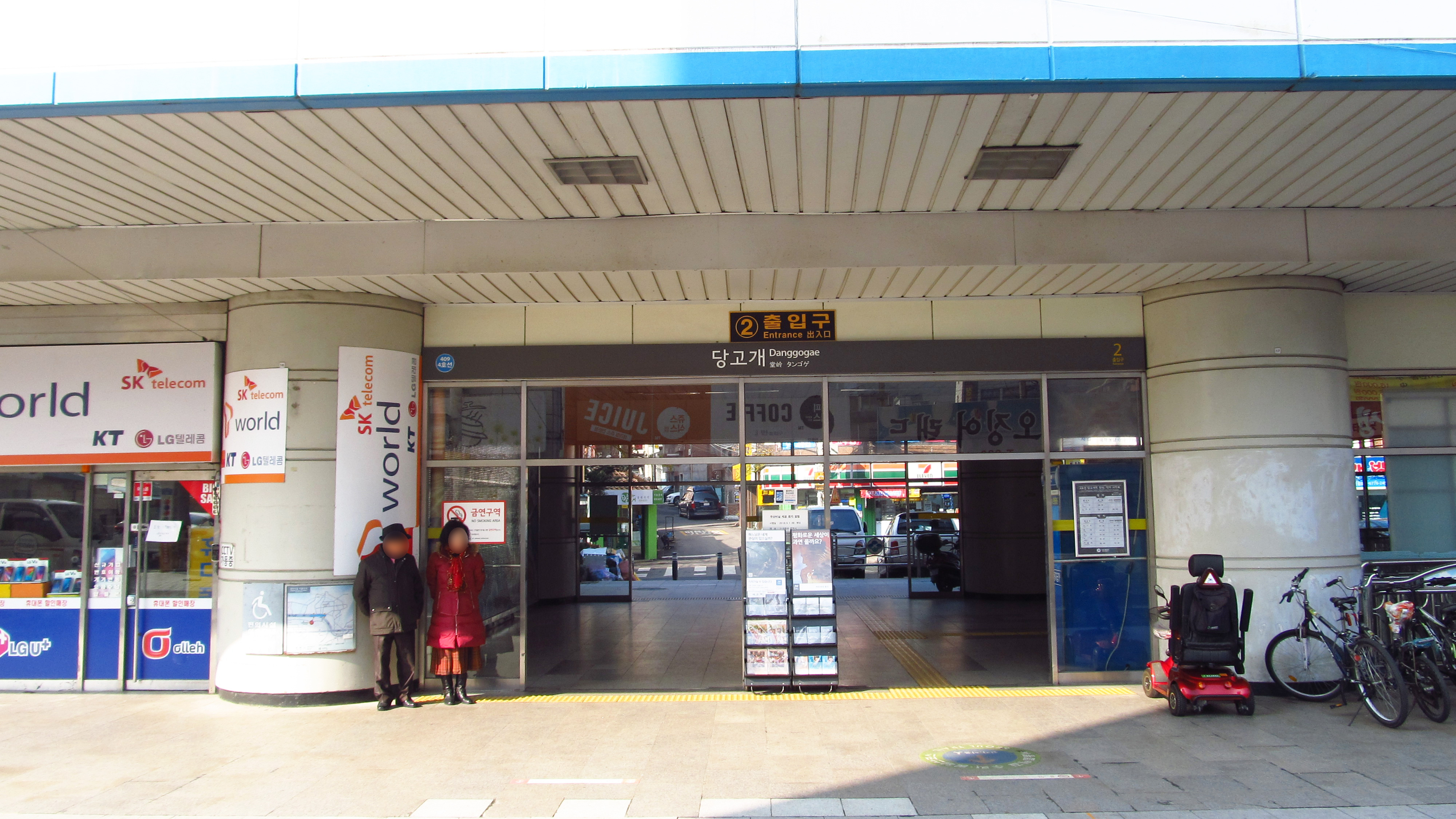 The no.2 entrance to Danggogae Station on Seoul Subway Line 4 in Nowon-gu, Seoul, Republic of Korea(South Korea)